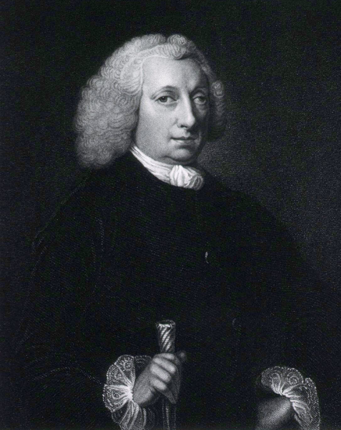 Portrait of John Huxham (1672–1768), English surgeon. From Thomas Joseph Pettigrew, Medical Portrait Gallery vol. 2 (1838).